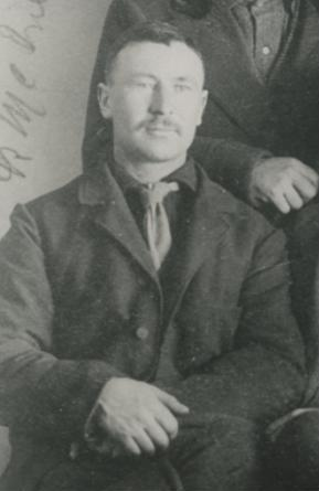 Leroy Napoleon (Jack) McQuesten (1835 - 1897)